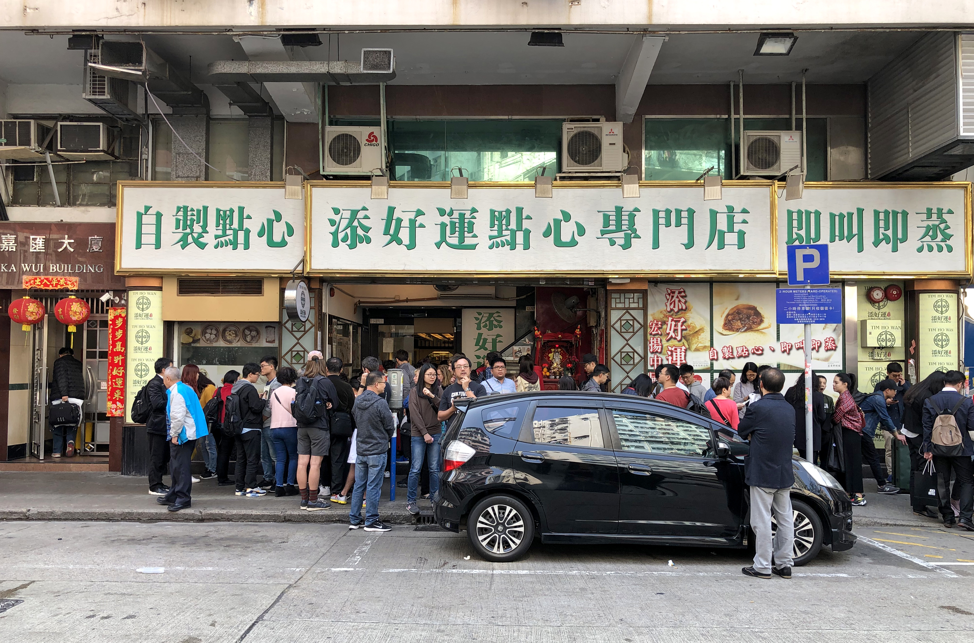 This "must-try" restaurant is a magnet indeed - see the queue!